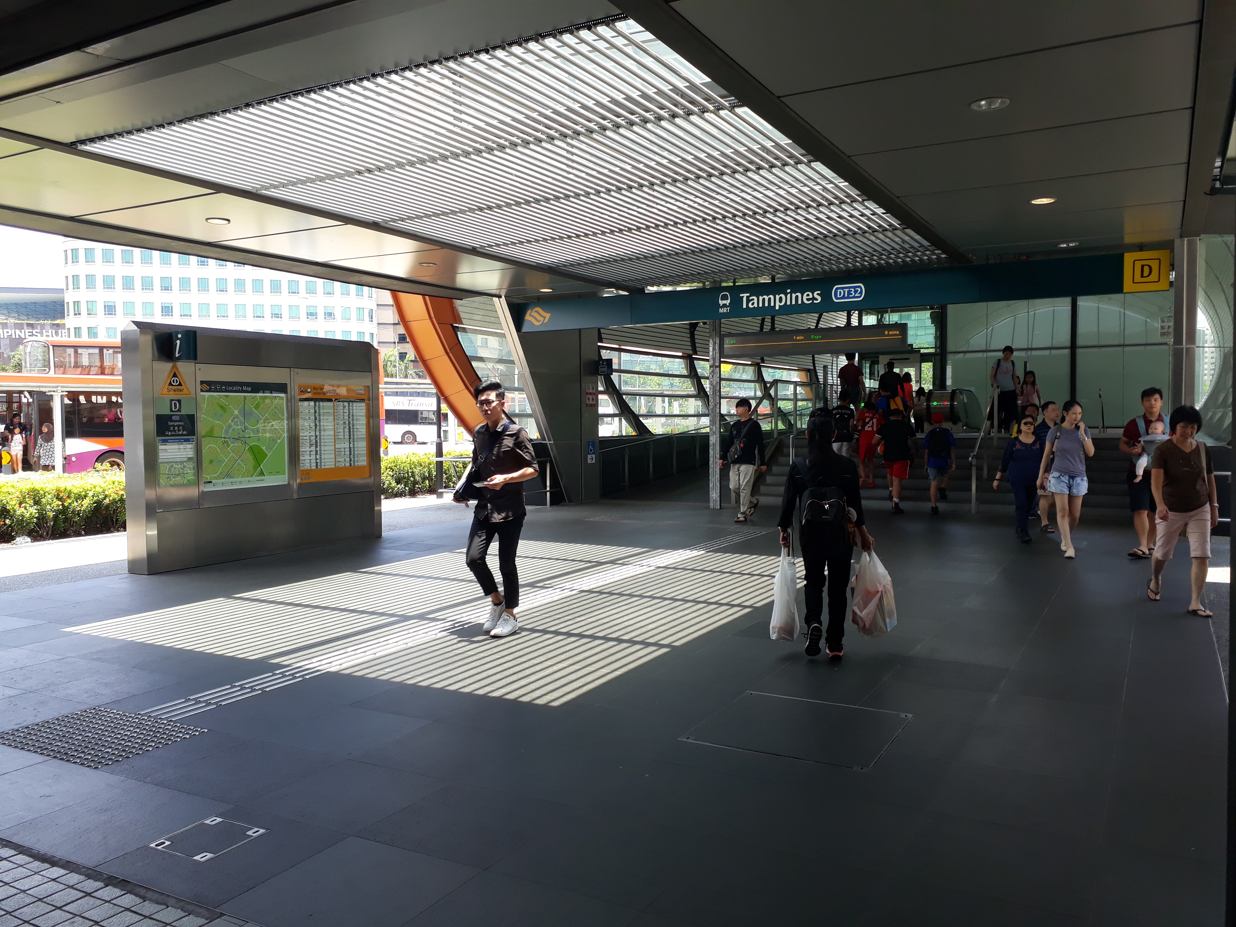 Tampines Exit D